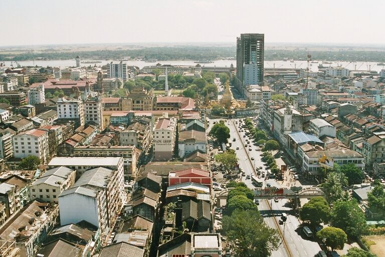 View of Yangon from Sakura Tower to the south, with modified contrast